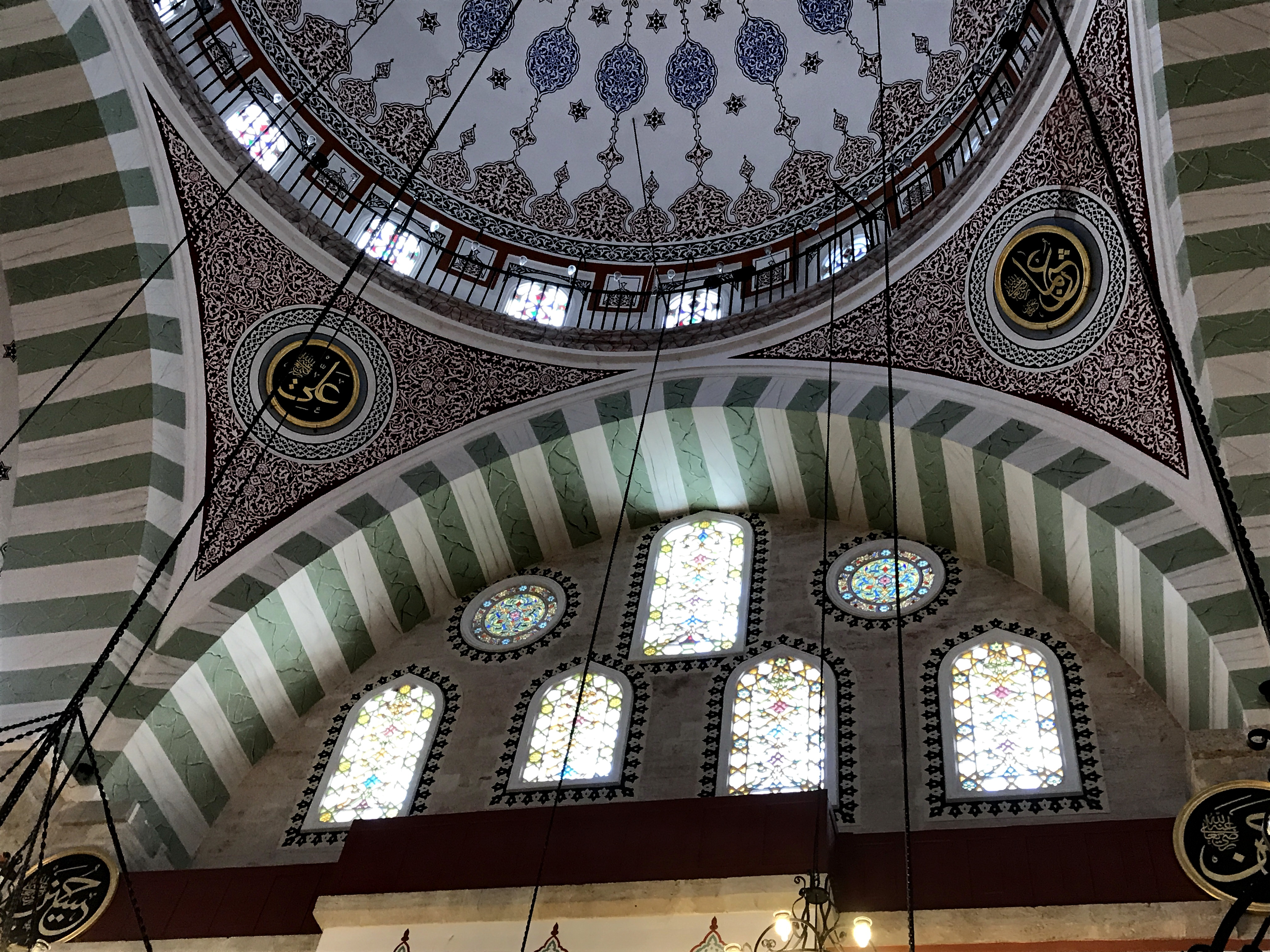 Mihrimah Sultan Mosque (built 1548), is an Ottoman mosque located in the historic center of the Üsküdar municipality in Istanbul, Turkey. It is the first of two mosques built by Mihrimah Sultan, daughter of Sultan Suleiman the Magnificent and wife of Grand Vizier Rüstem Pasha. It was designed by Mimar Sinan and built between 1546 and 1548.